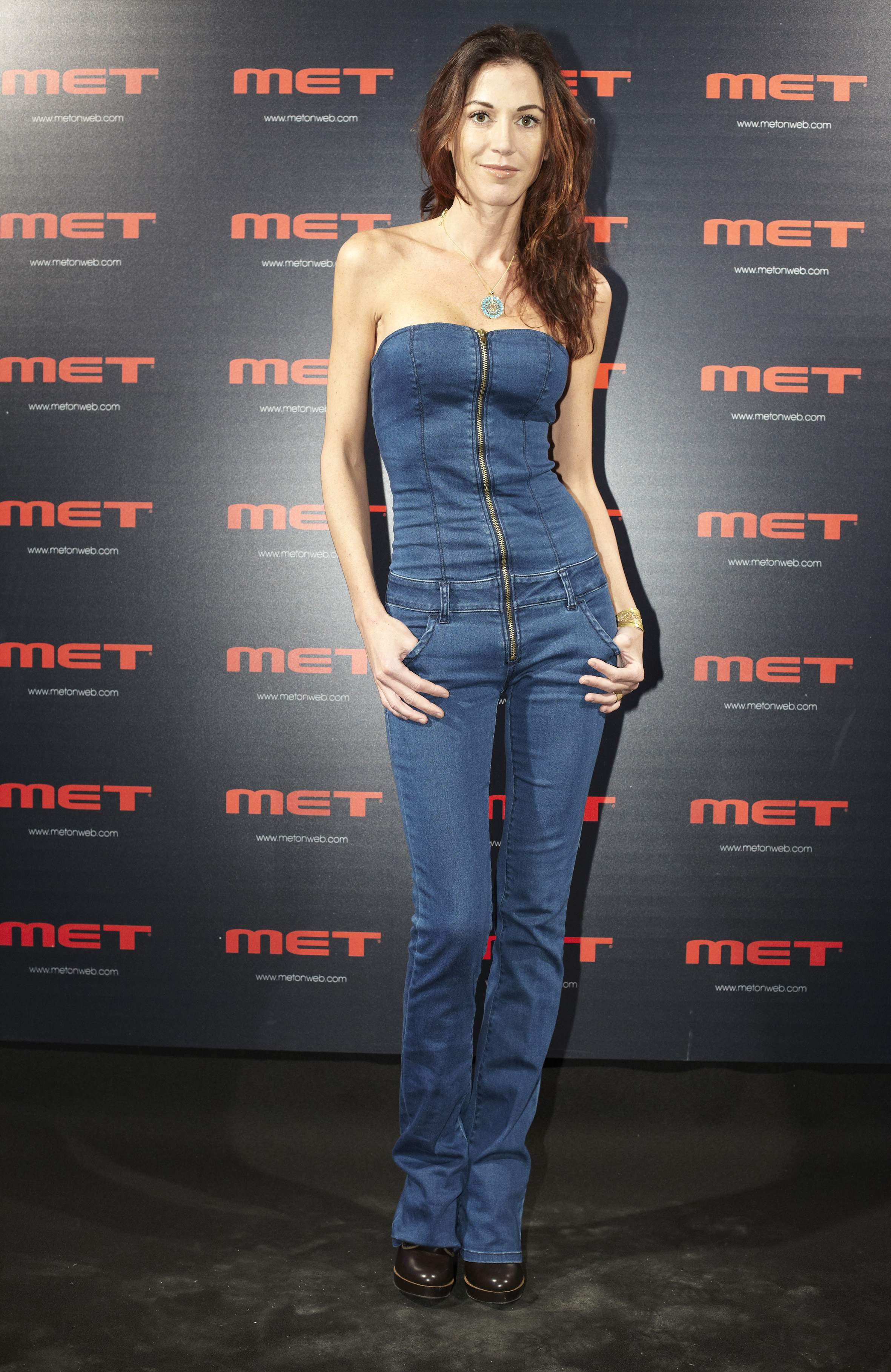 the journalist and presenter Sky Federica Torti